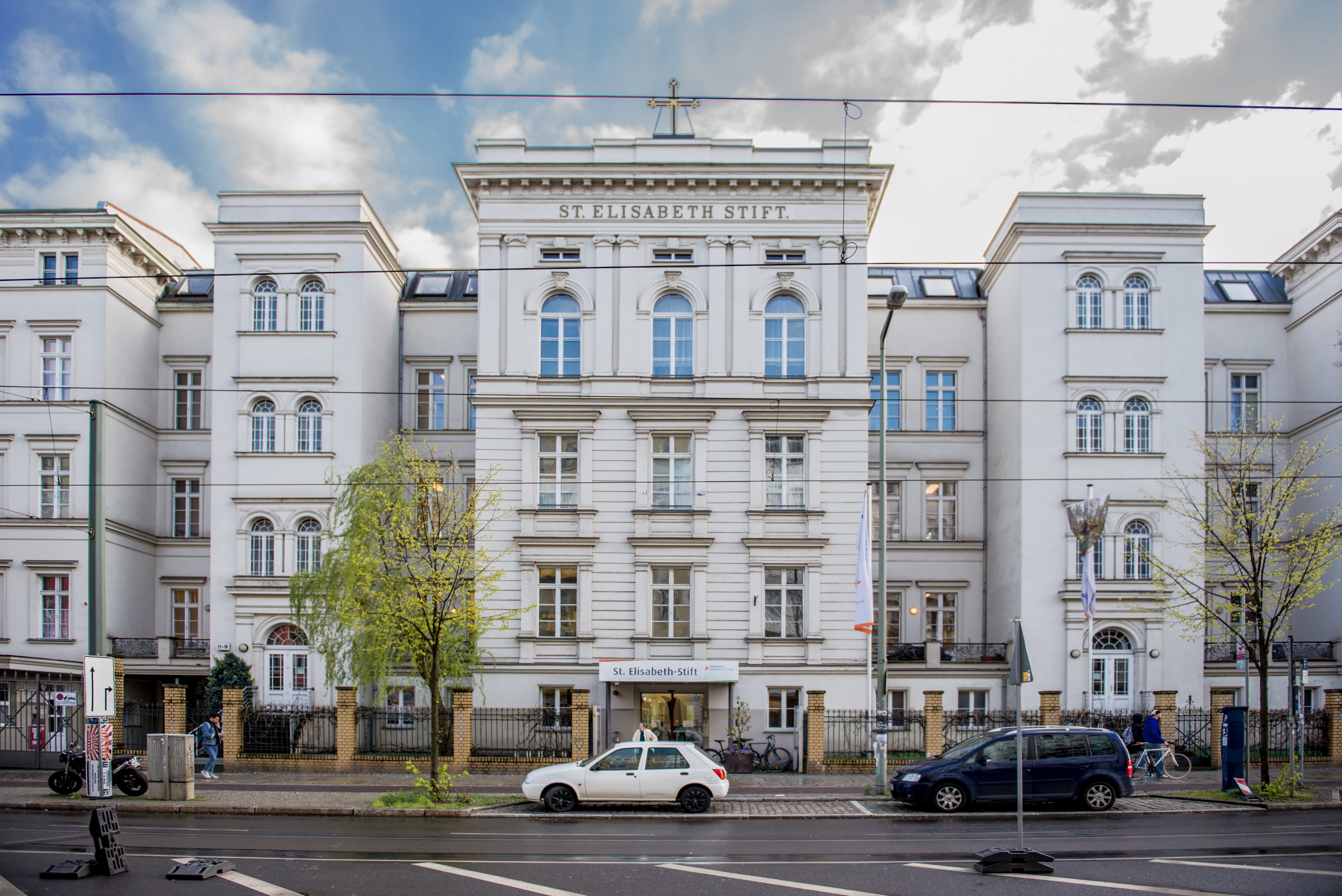 St. Elisabeth Stift Building